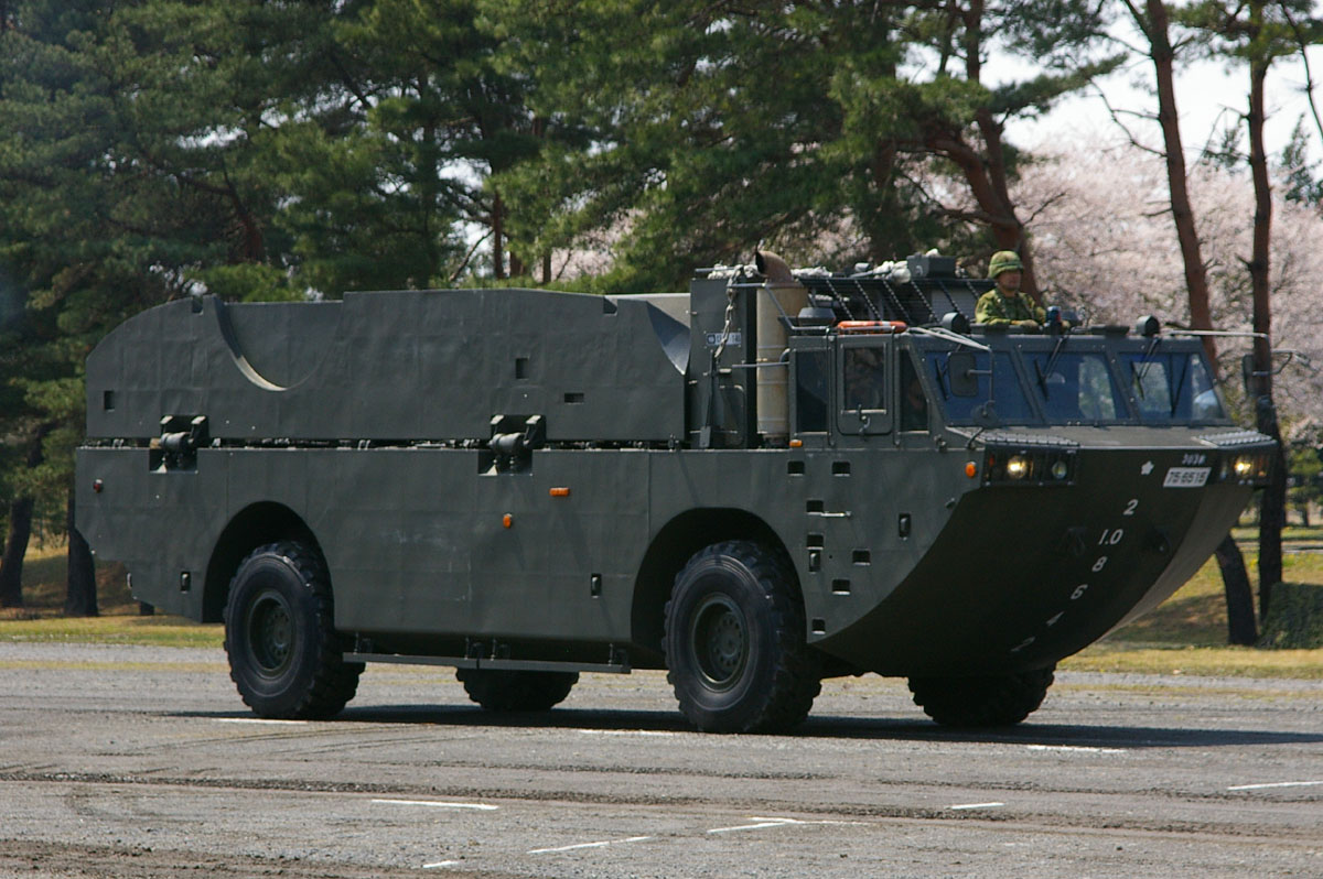 Taken by los688,8-Apr-2007,JGSDF Camp-Utsunomiya.JGSDF Type94 Beach Minelayer Vehicle,303rd Beach Barricade Co./4th Engineer Group.PD-self. ja:2007年4月8日、投稿者撮影。陸上自衛隊宇都宮駐屯地創立57周年記念行事。94式水際地雷敷設装置、第4施設群第303水際障害中隊。地上形態。